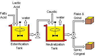 A cartoon depicting the lactylate manufacturing process